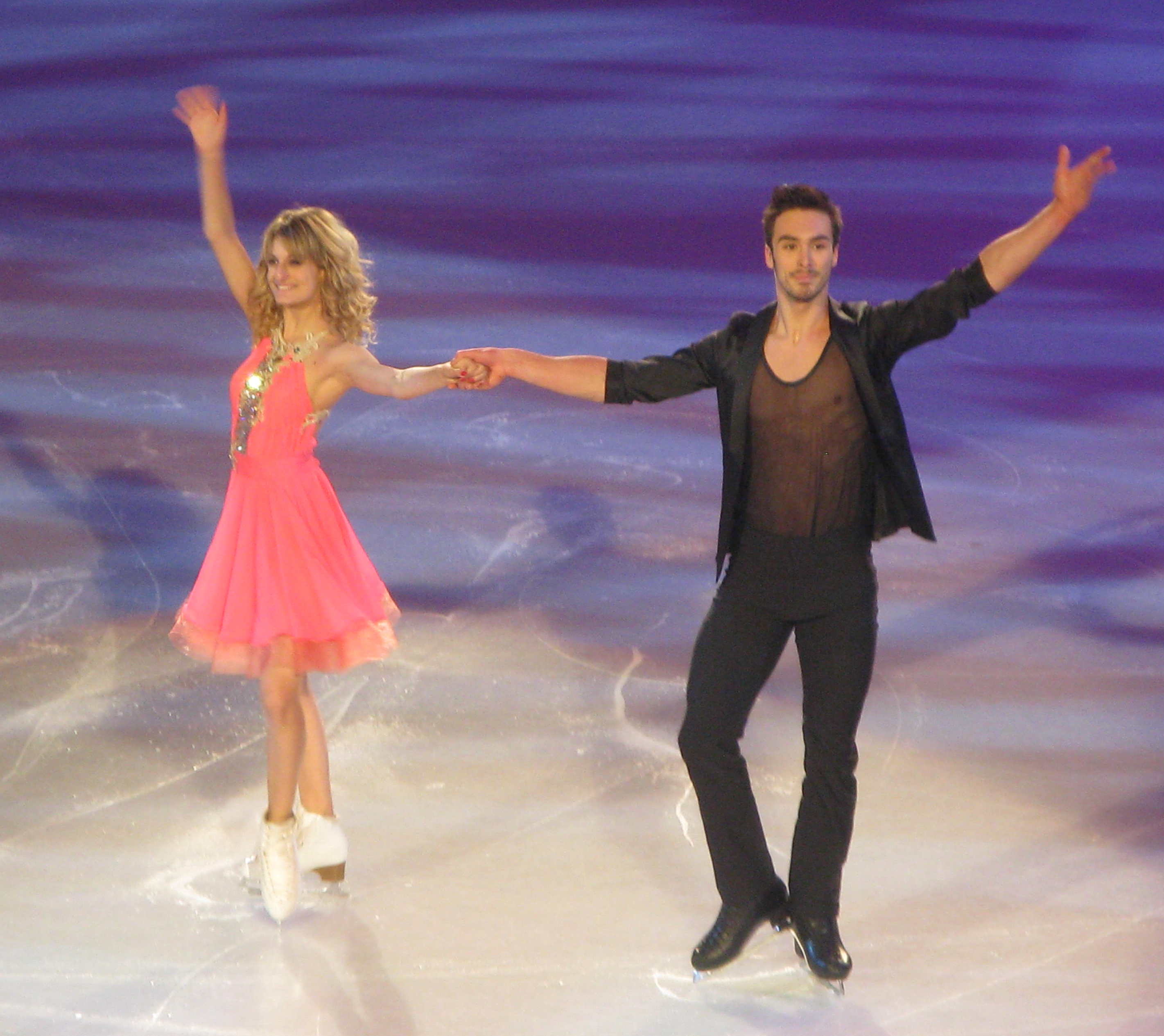 Skaters Gabriella Papadakis and Guillaume Cizeron at the figure skating gala exhibition of 2013 Trophée Éric Bompard in Bercy, Paris.